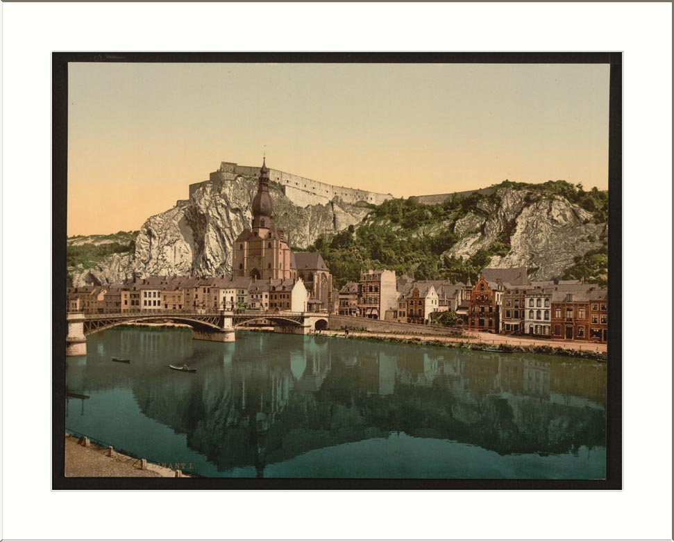 between ca. 1890 and ca. 1900. Print no. 8635. Views of architecture and other sites in Belgium 1 photomechanical print : photochrom color. Library of Congress Prints and Photographs Division Washington D.C. 20540 USA Dinant I Belgium between ca. 1890 and ca. 1900. Print no. 8635. Views of architecture and other sites in Belgium 1 photomechanical print : photochrom color. Library of Congress Prints and Photographs Division Washington D.C. 20540 USA